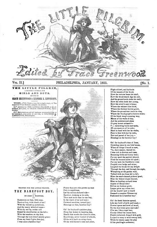 First page of The Little Pilgrim, a periodical edited by Grace Greenwood. Features the first publication of the poem "The Barefoot Boy" by John Greenleaf Whittier, including an illustration. Philadelphia: January 1855, vol. II, no. 1: p. 1.